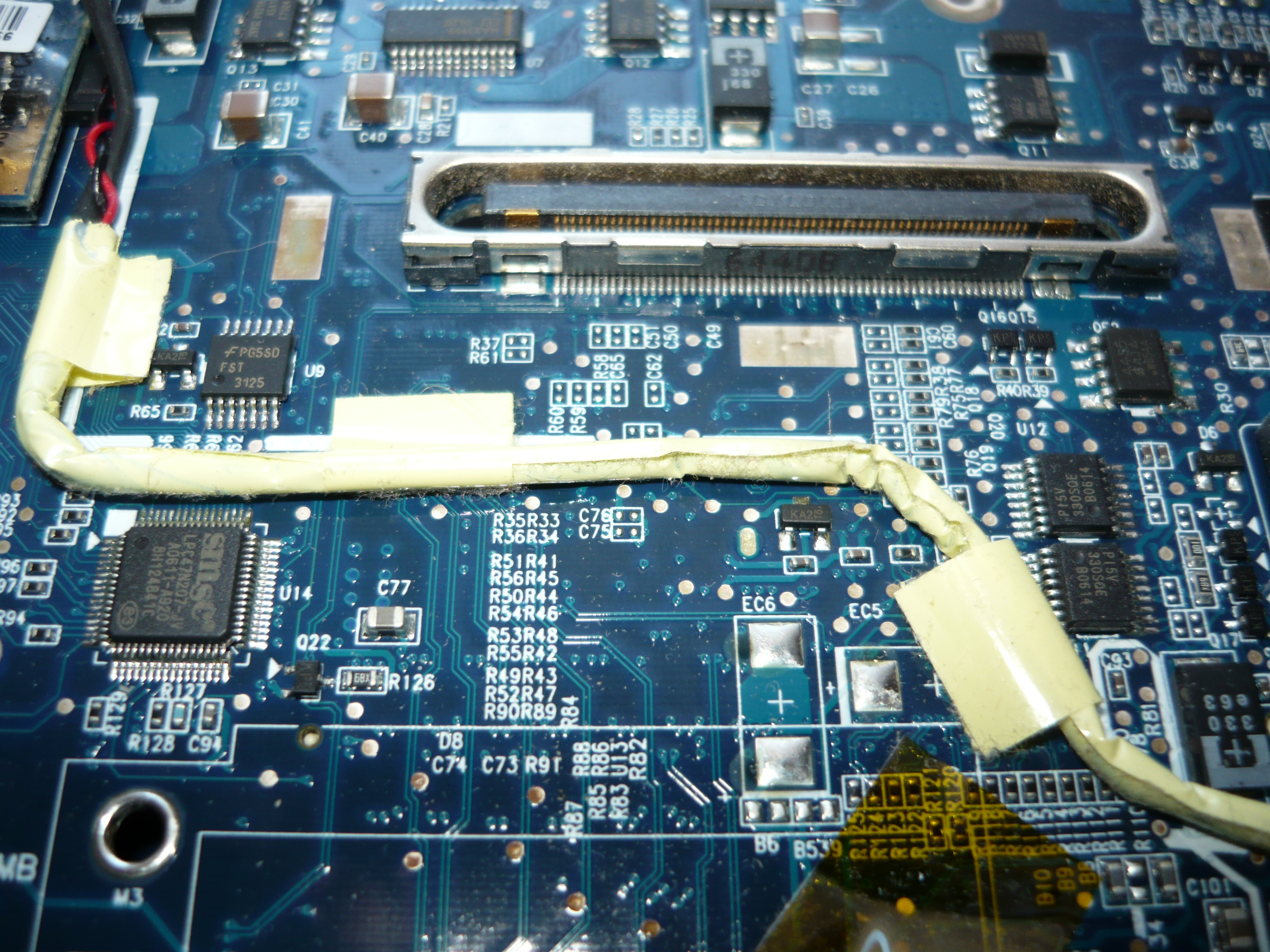 Smsc SuperIO chip on the laptop SamsungX11